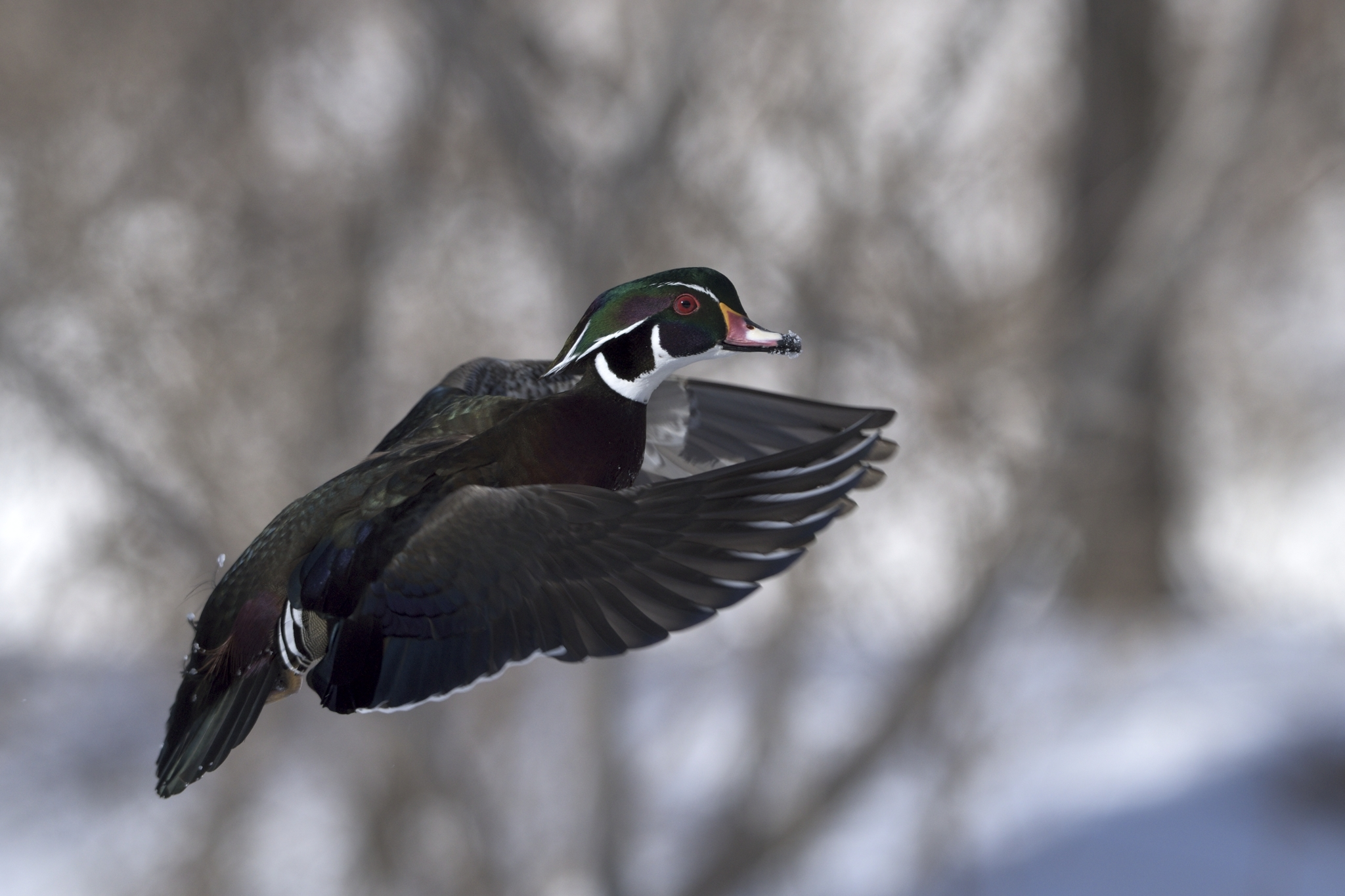 Wood duck in flight